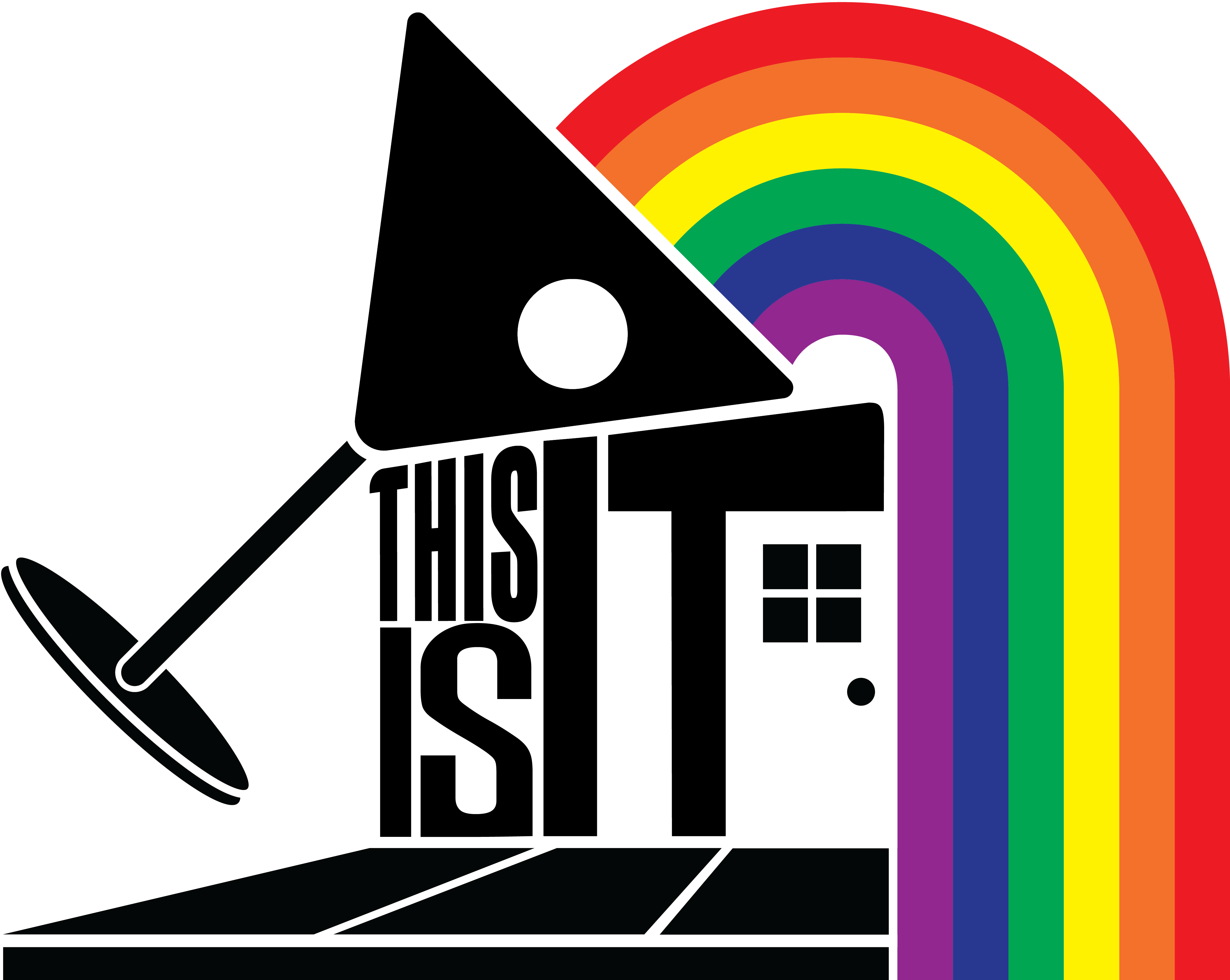 Current Logo, 2016